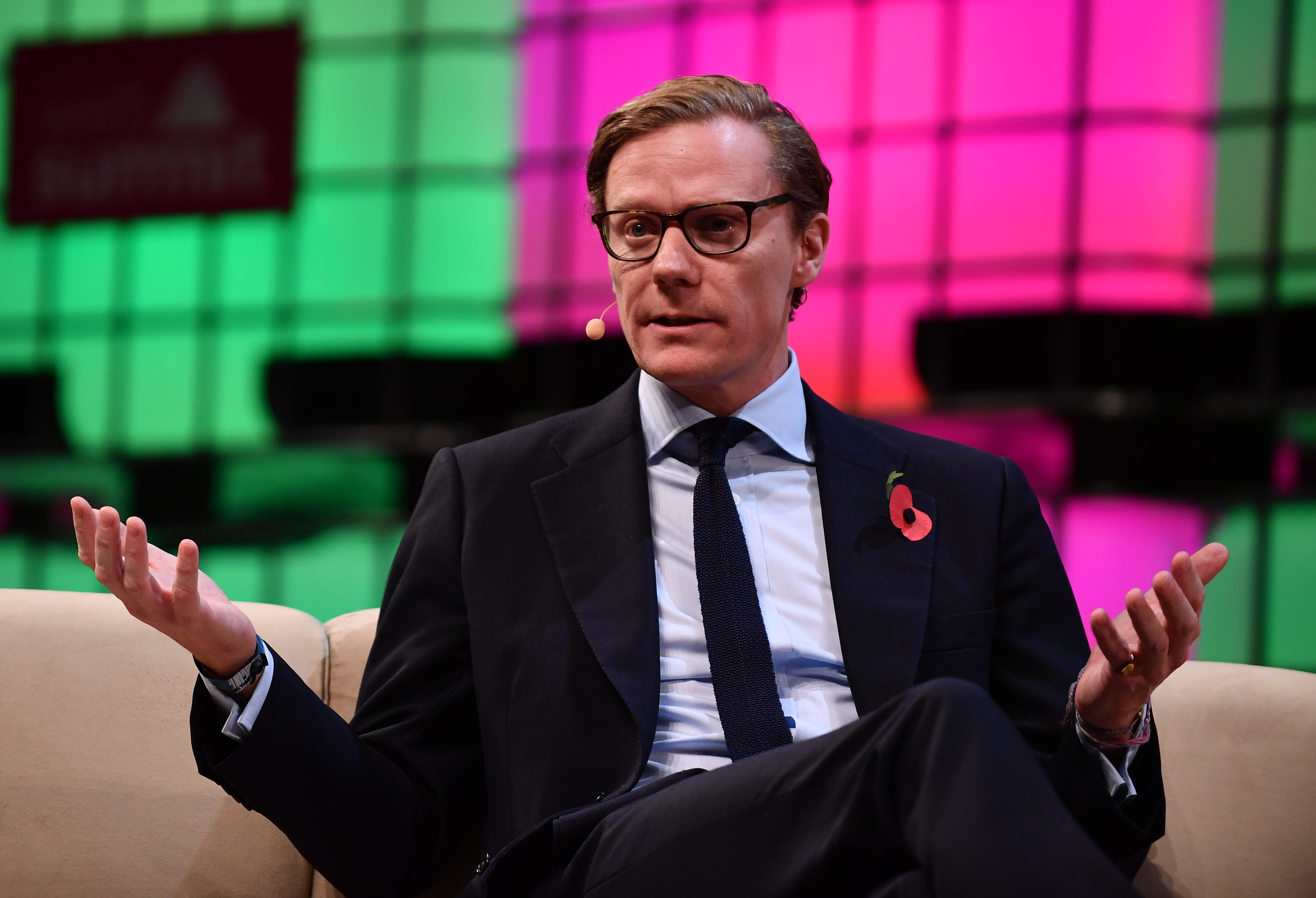 9 November 2017; Alexander Nix, CEO, Cambridge Analytica, on Centre Stage during day three of Web Summit 2017 at Altice Arena in Lisbon. Photo by Sam Barnes/Web Summit via Sportsfile